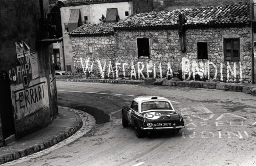 Timo Mäkinen+John Rhodes in MGB at 1966 Targa Florio (May 8), Collesano curve, they ended in 9th place.[1]